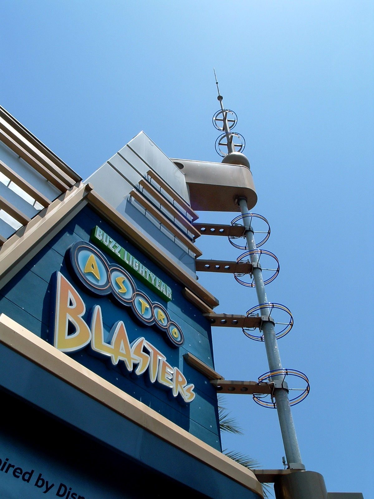 Entrance to Buzz Lightyear Astro Blasters at Disneyland.